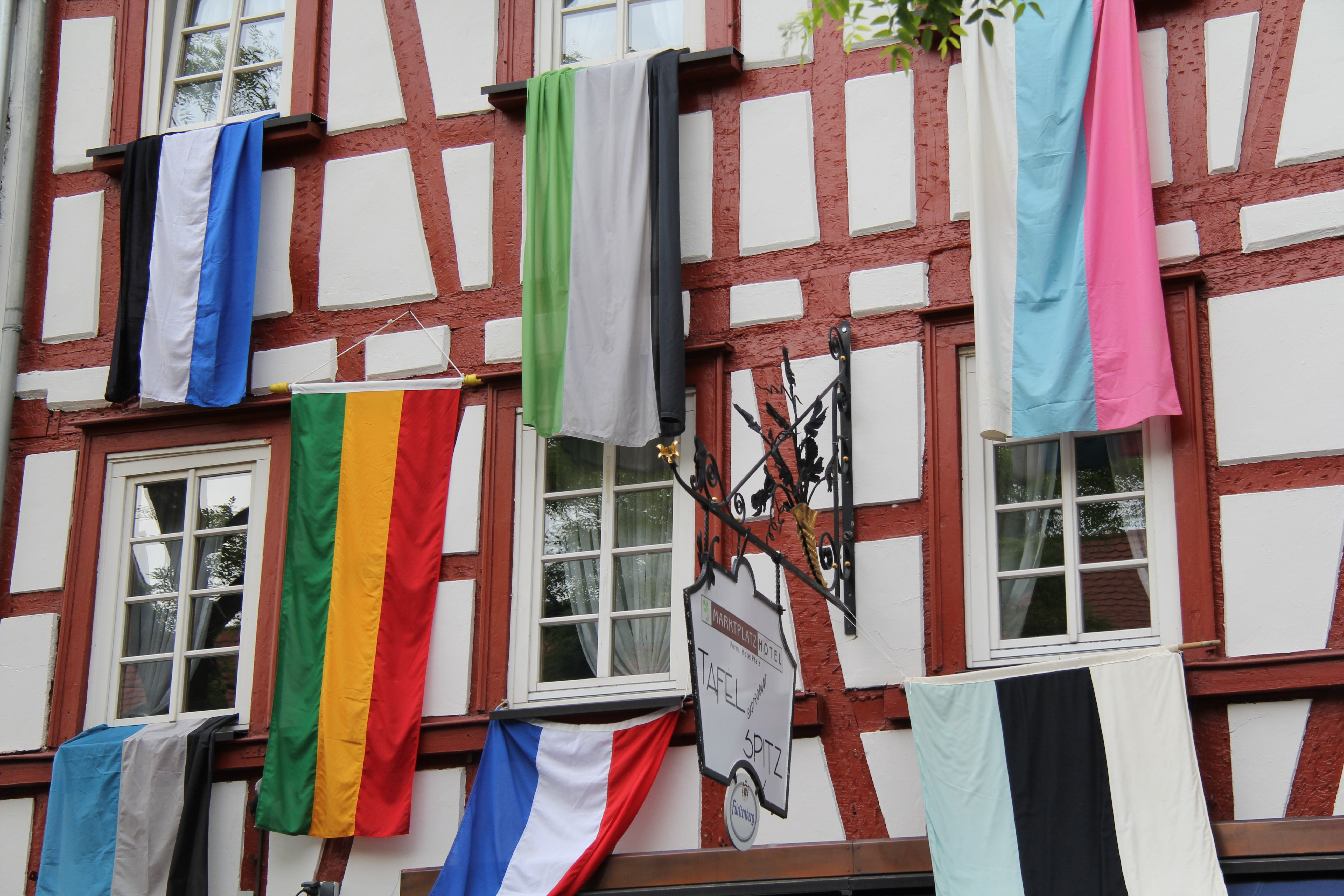 House facade decorated with flags of student corps on the occasion of Weinheim congress, Weinheim / Germany 2012